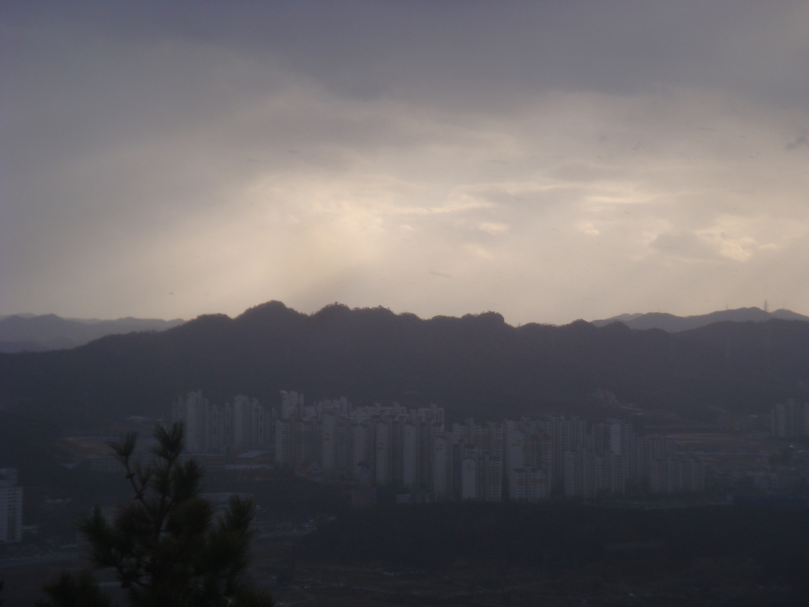 Gobongsan in Daejeon, South Korea : 구봉산 (대전)